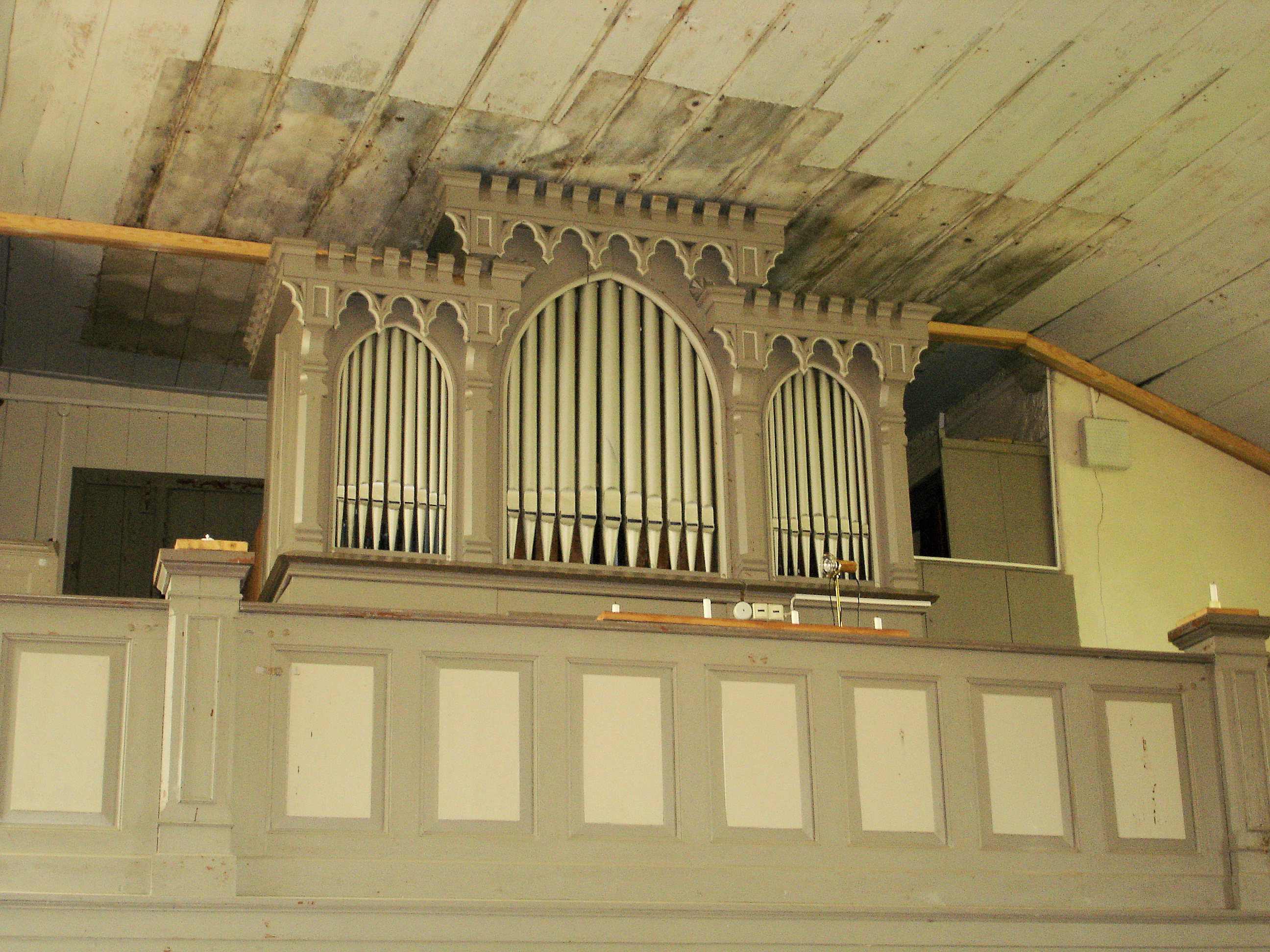 Organ of the church in Lärz, Mecklenburg, Germany